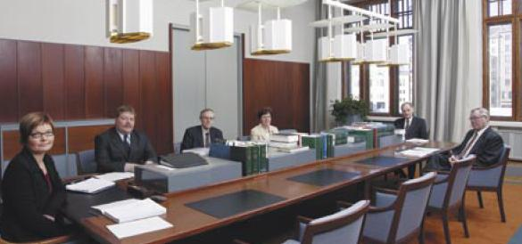 The second section of the Supreme Administrative Court of Finland starting a session in 2004. Persons from the left: Adminstration referendary Minna Saarikoski, the preparer of the matter Justice Matti Halén Justice Heikki Kanninen the Chair of the session, Justice Ahti Rihto Justice Raimo Anttila